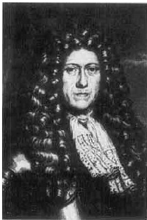 Van Rheede